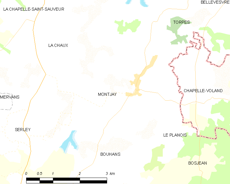 Map of French municipality